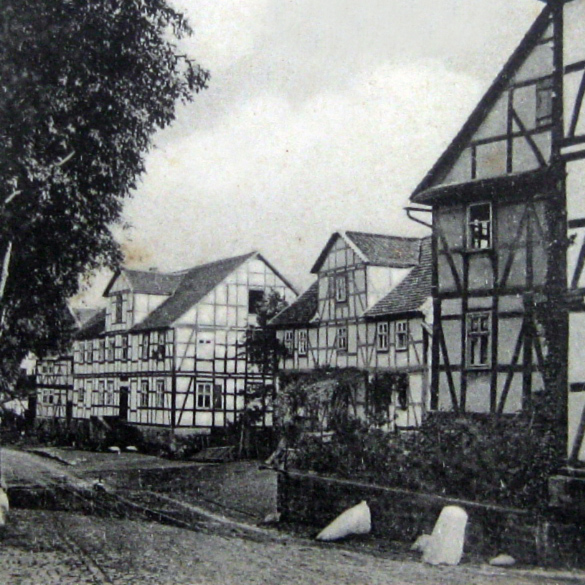 Villa Elisabeth (Kasseler Str. 5) in Lohfelden-Vollmarshausen